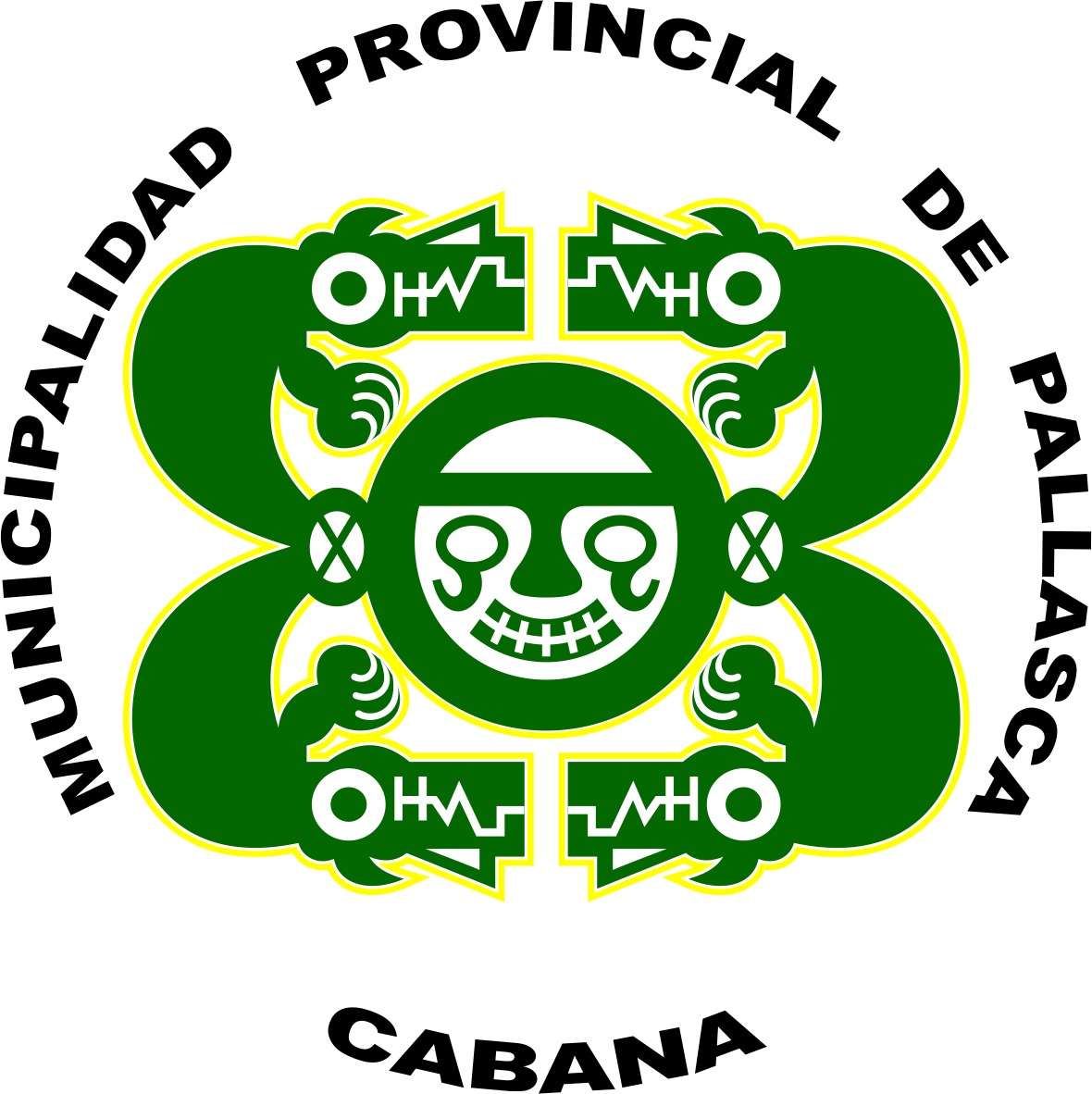 District Cabana - Province Pallasca - Ancash Region